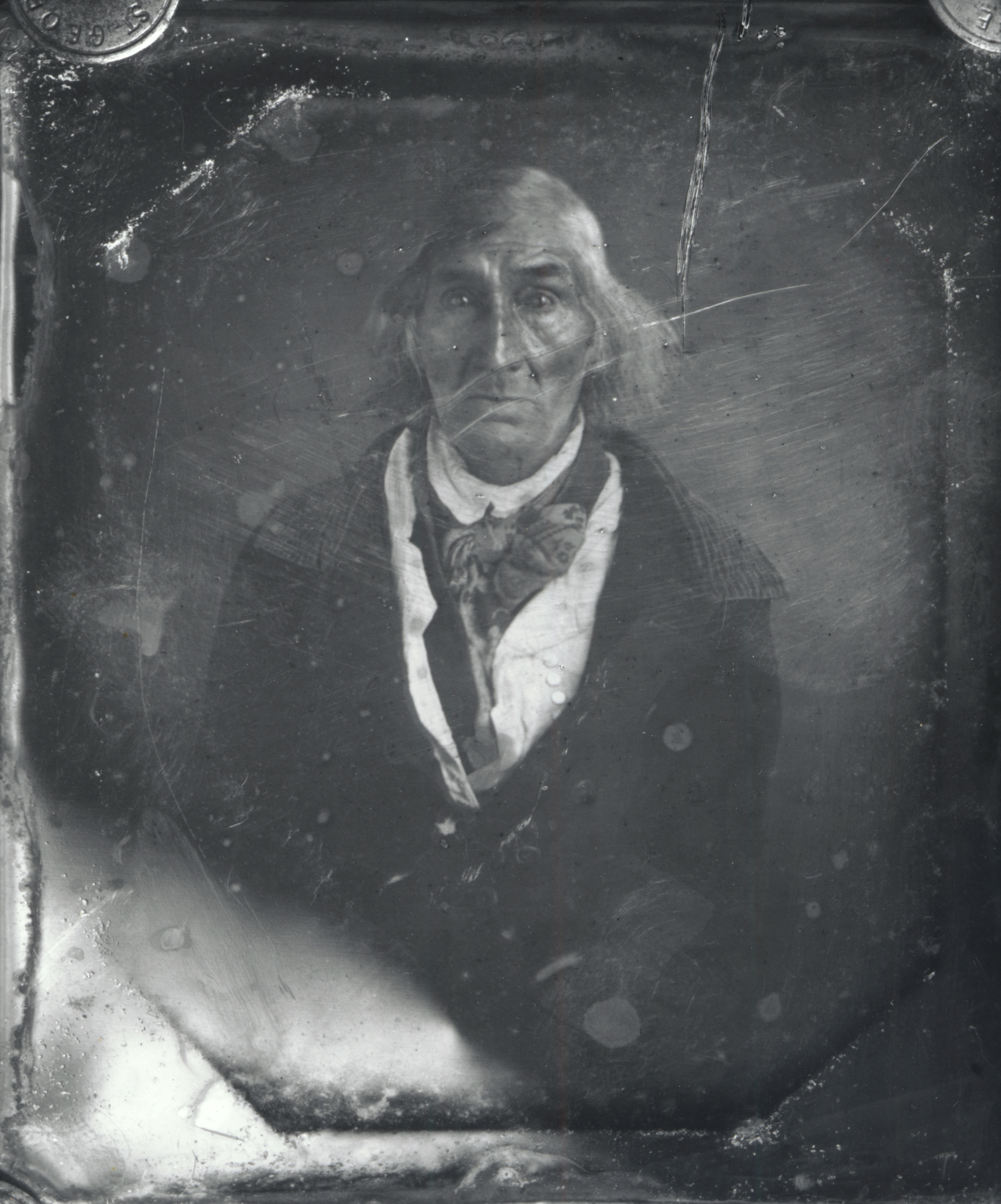 Abram Quary, the last known Indian male on Nantucket, who died in 1854. Image number: GPN4336